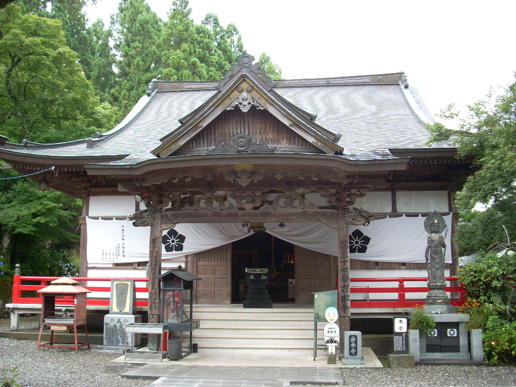 Main temple, Iwamoto-ji